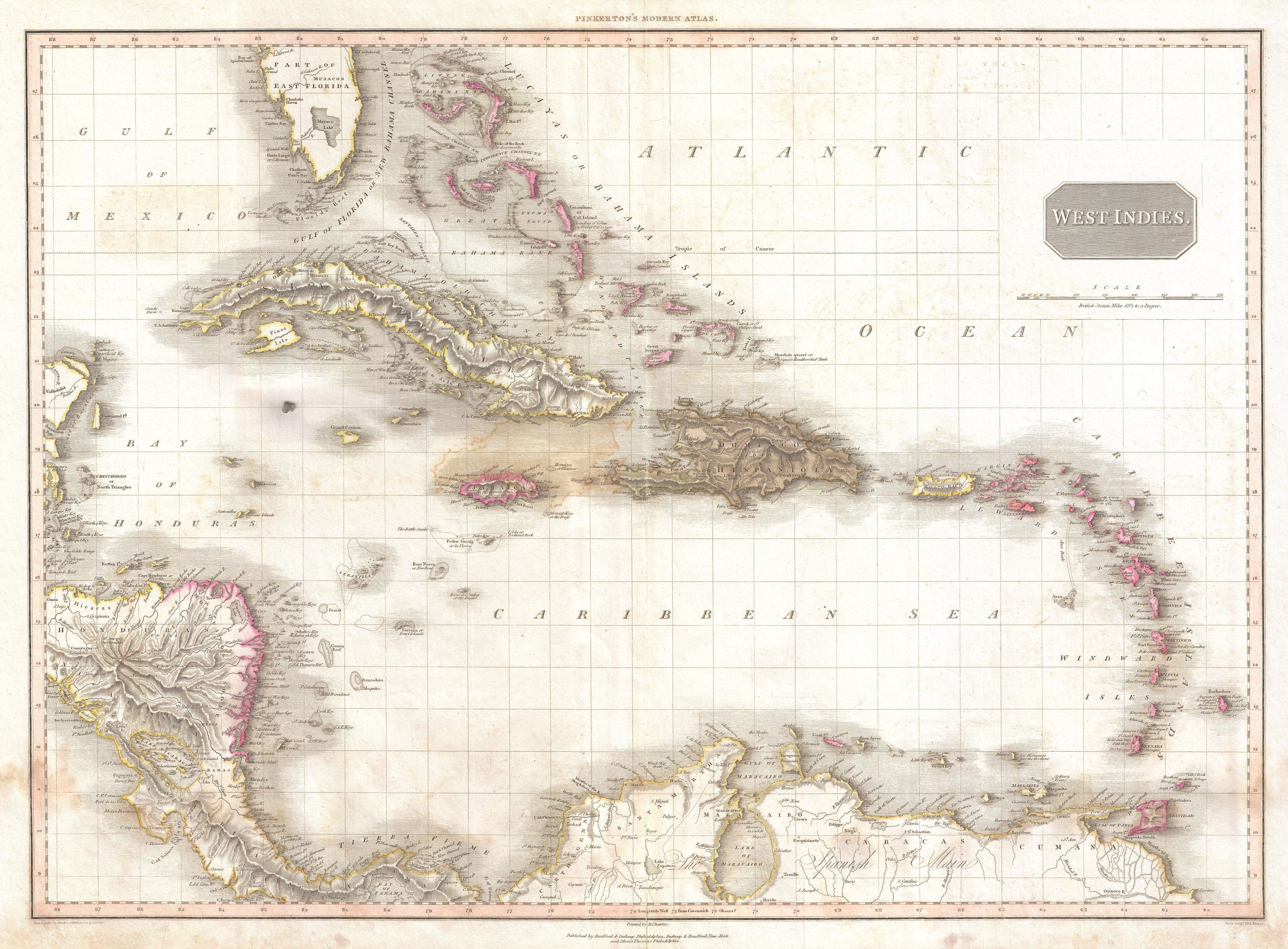 Extraordinary large format map of the West Indies published in 1818 by cartographer John Pinkerton. Centered on the island of Hispaniola or Santo Domingo, this map covers from the Bay of Honduras to the Windward Isles, and from Florida and the Bahamas south to Lake Maracaibo and the Spanish Main. Includes Cuba, Jamaica, Porto Rico, Hispaniola, the Bahamas, and southern Florida. In Florida there is a large inland lake, labeled Mayaco, which is no doubt an embryonic representation of Lake Okeechobee. Pinkerton offers extraordinary detail throughout noting both physical and political elements, including shoals, reefs, and other undersea dangers. Possibly the most attractive English map of the West Indies to appear in the early 19th century. Drawn by L. Herbert and engraved by Samuel Neele under the direction of John Pinkerton. The map comes from the scarce American edition of Pinkerton’s Modern Atlas, published by Thomas Dobson & Co. of Philadelphia in 1818.